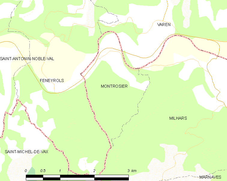 Map of French municipality Montrosier